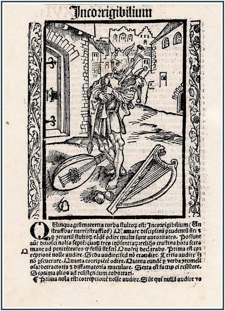 Jean Geiler de Kaysersberg (1445-1510). Navicula, sive Speculum fatuorum. Jacob Otther. Strassburg: Johann Prüss, 16 Janvier 1511. (Engraver "Nef des Fous" en 1494, Albrecht Dürer (1471-1528) . Institut of Applied Statistics, archive of the art department.